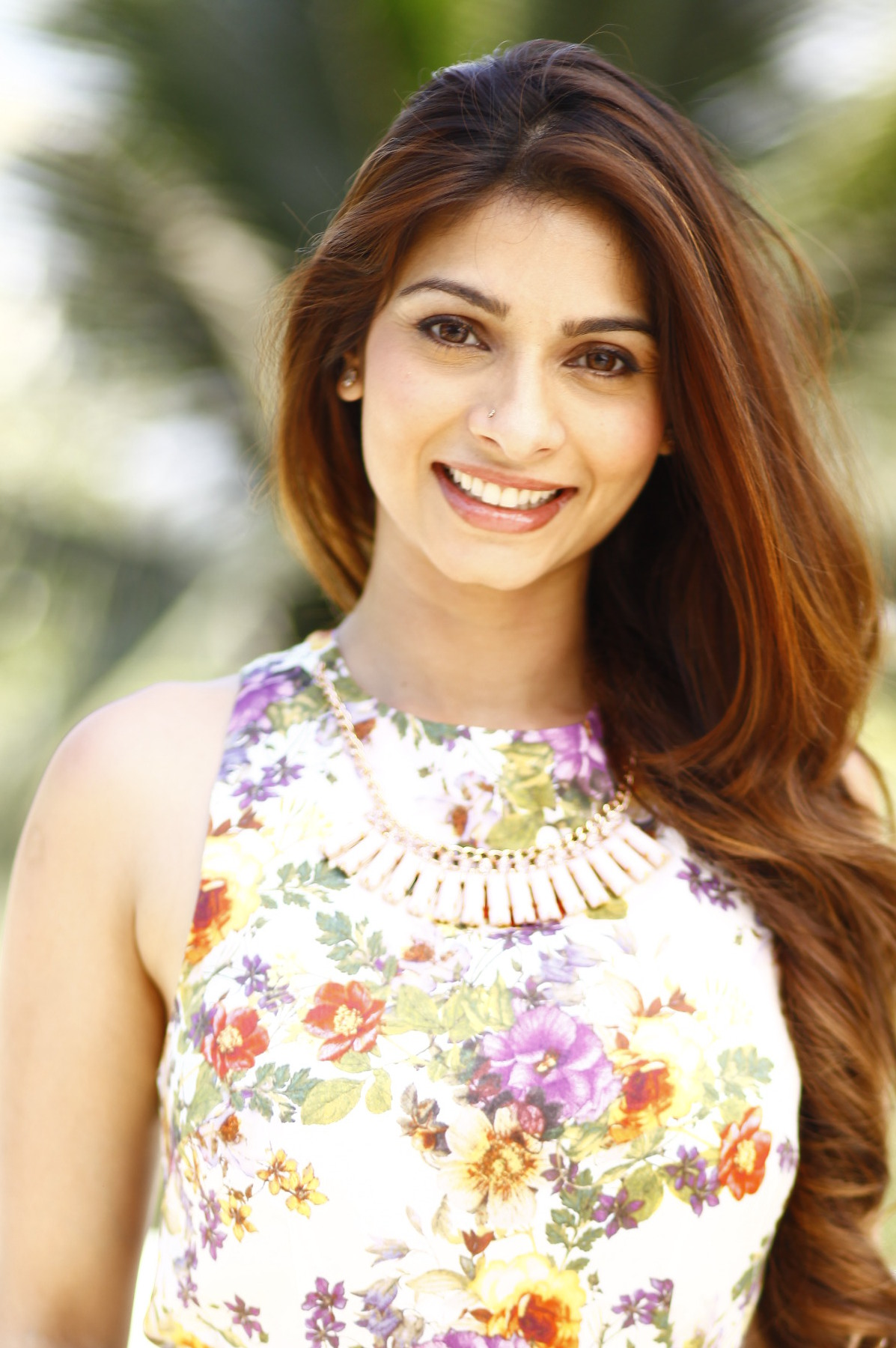 This is an image of Tanishaa wearing a floral dress during a shoot